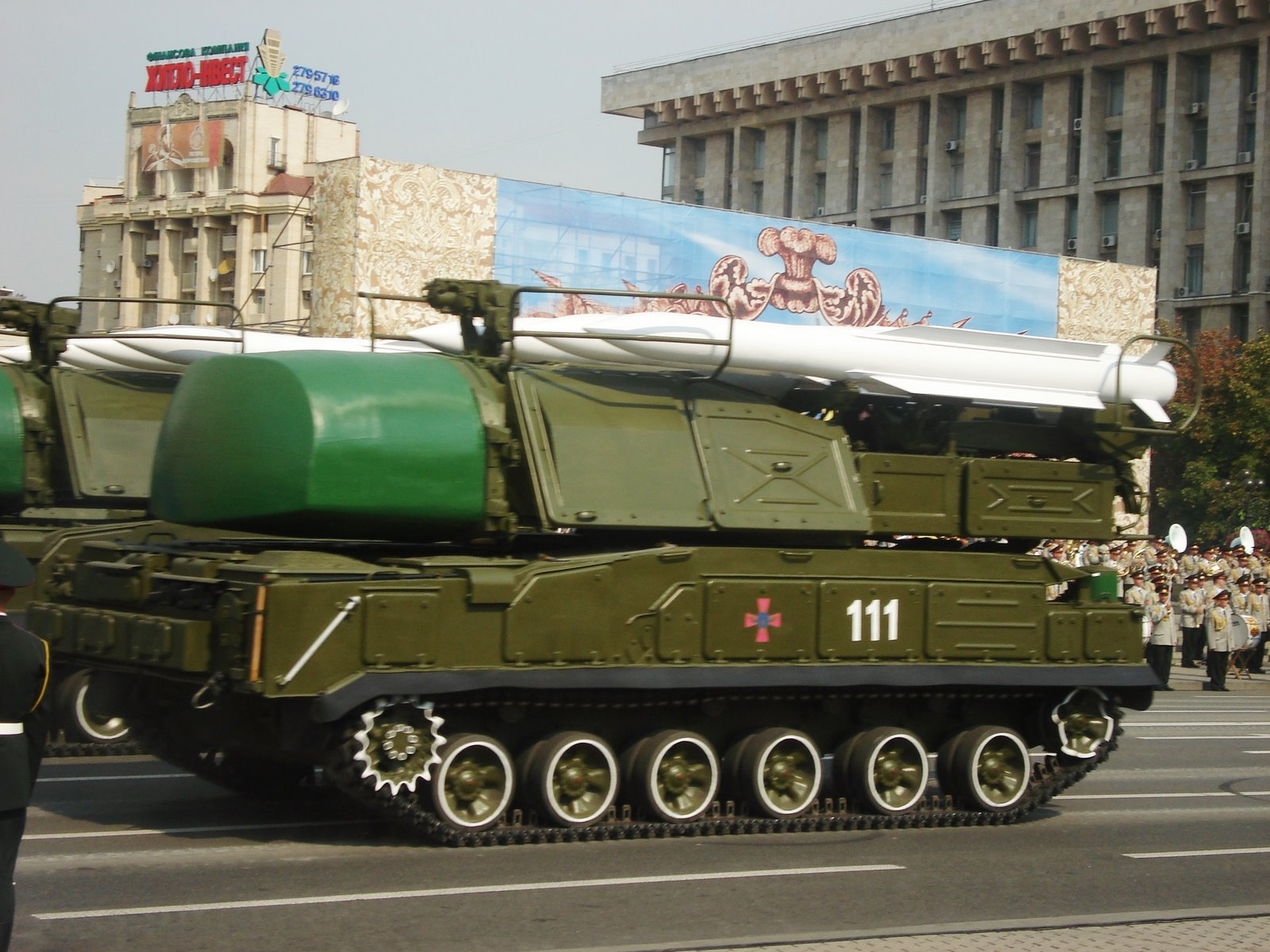 9K37 Buk missile launchers during the Independence Day military parade in Kiev, 2008.